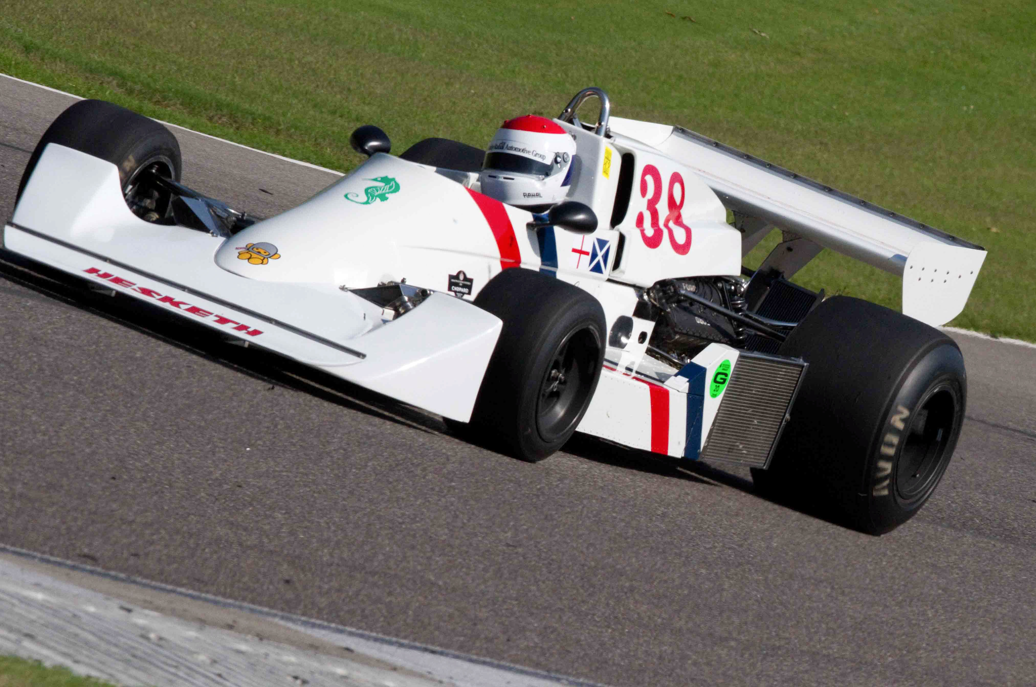 Hesketh 308C at Barber Motorsports Park, 2010